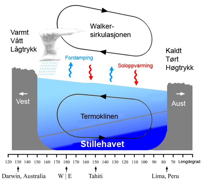 Quasi equilibrium and La Nina phase of SO. Translated to Norwegian (nynorsk).